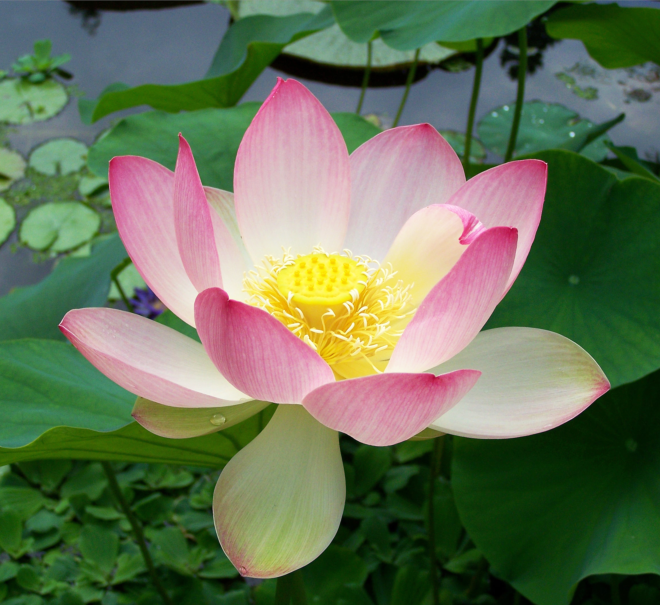 Flower of Nelumbo nucifera, bean of India.